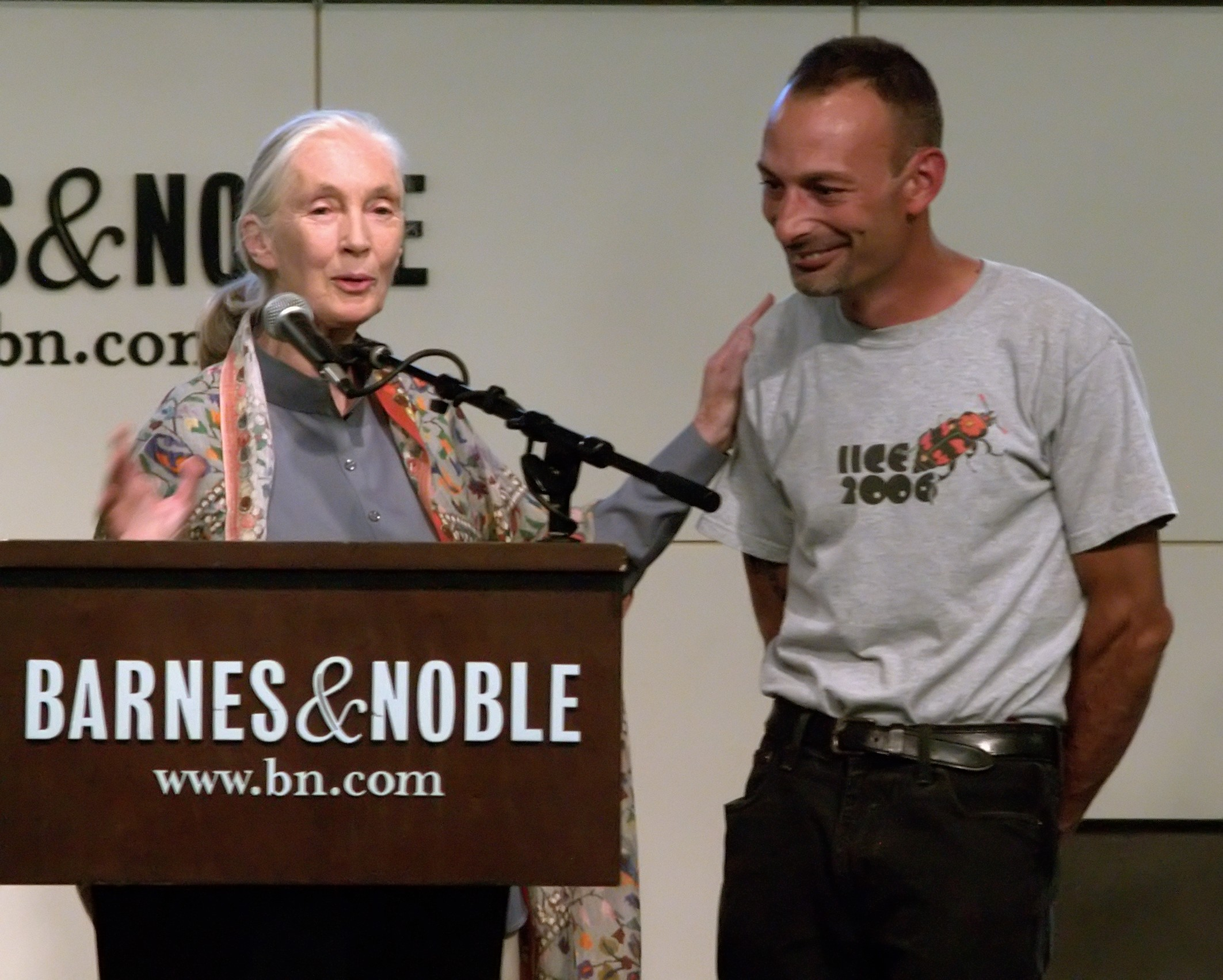 Dr. Jane Goodall with Dr. Lou Perrotti at the Union Square, New York City Barnes and Noble. Photographers blog post about this event and photo.